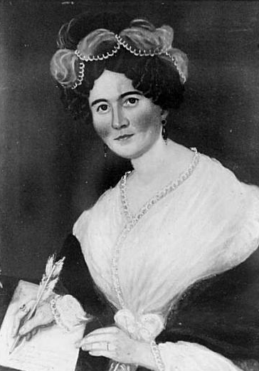 Portrait of "Catharine R. Williams" by Susannah Paine, ca.1835